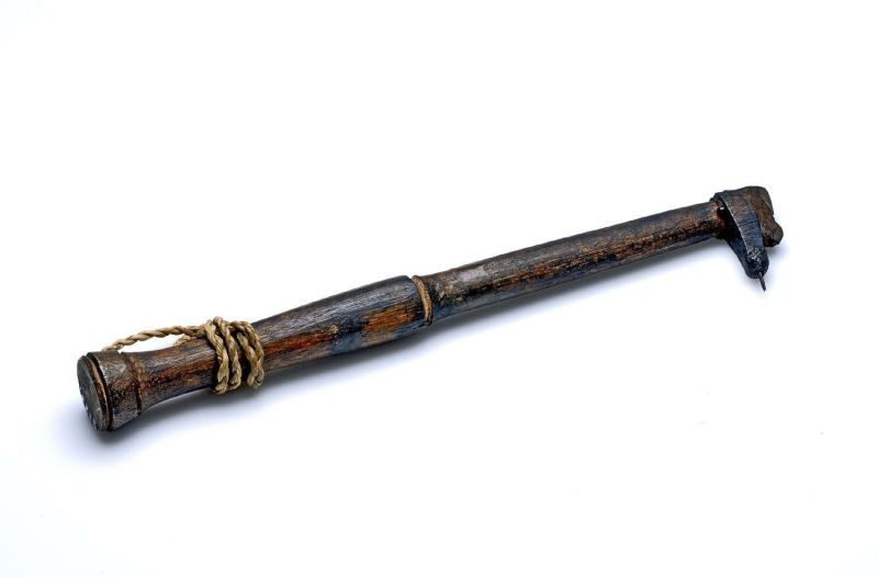 Tattoo instrument (a small wooden handle with three nails)